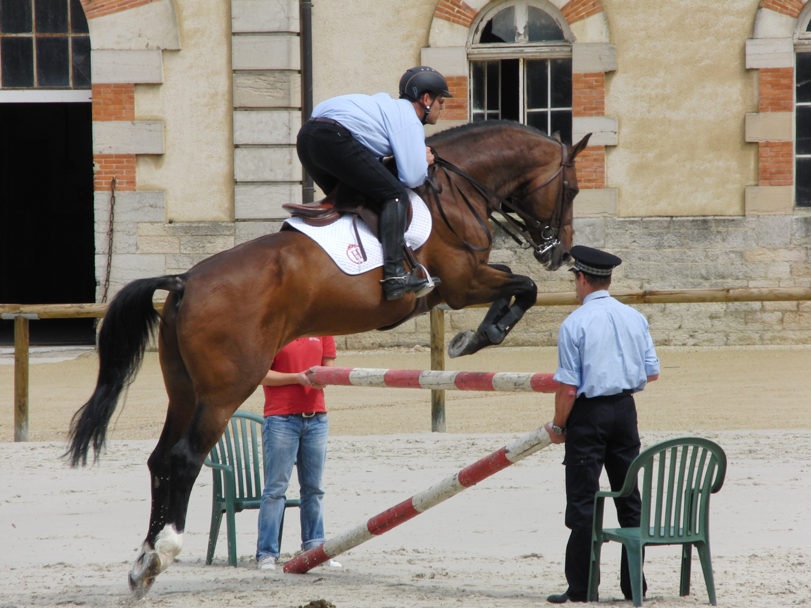 Selle français stallion, Hurlevent de Brekka, jumping - Haras de Cluny, Saône-et-Loire, France